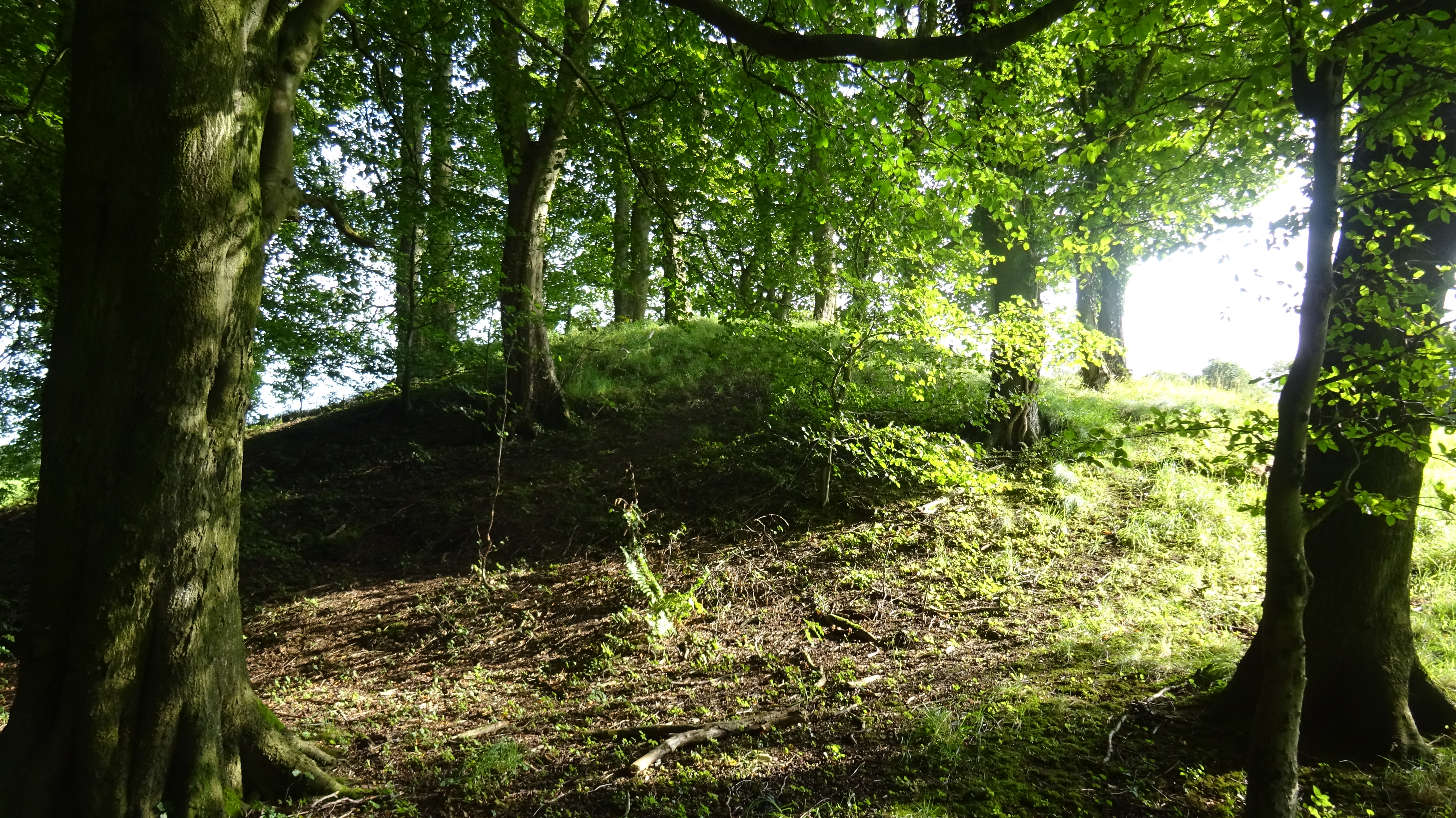 The Castle Hill, Caprington, East Ayrshire, Scotland. A view of the summit from the north. A suggested motte or barony moot hill.